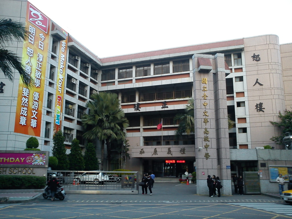 The front door of National Taichung Wen-hua Senior High School, Taiwan.中文（台灣）: 中華民國(台灣)國立台中文華高級中學正門。